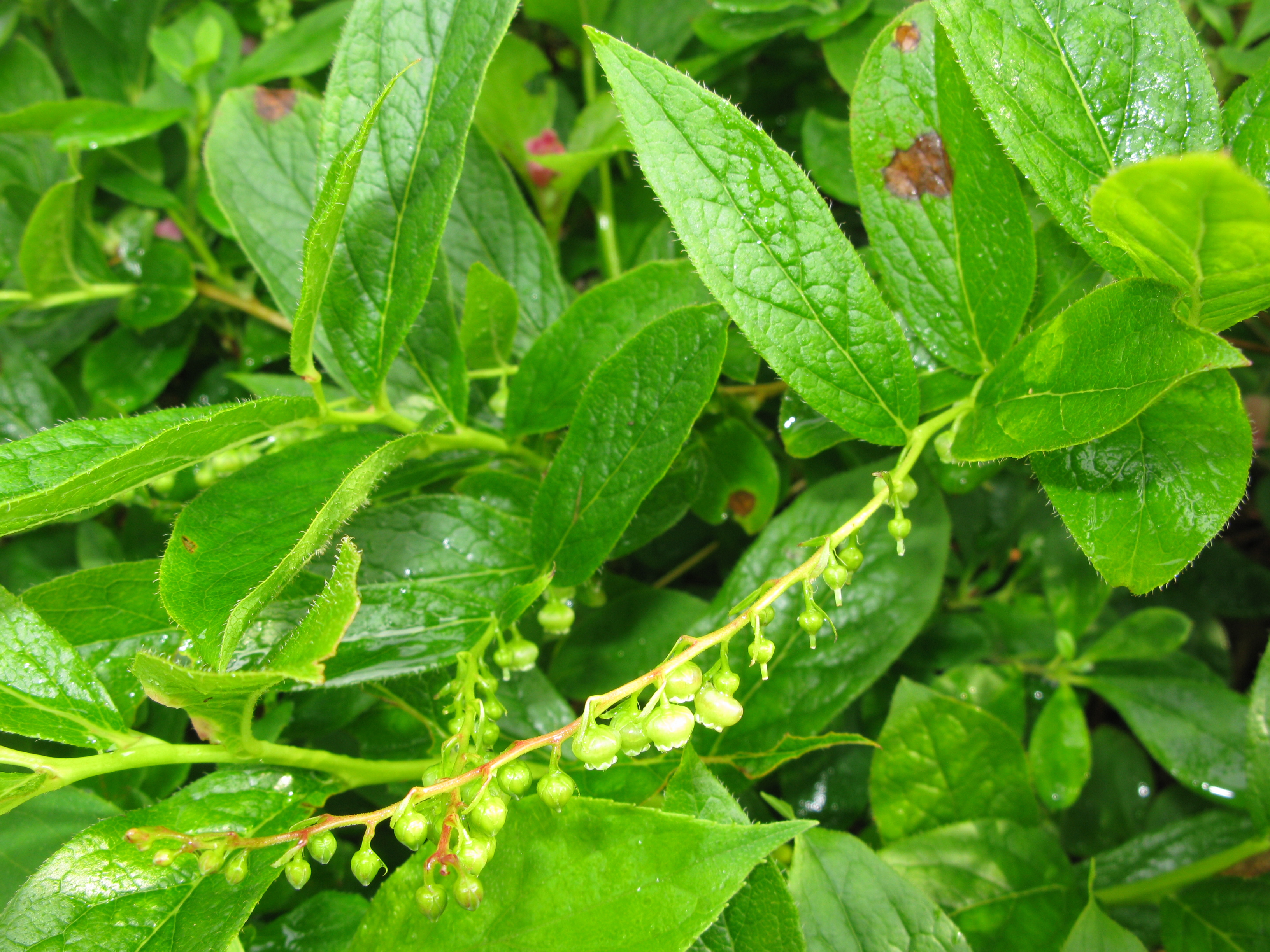 Leucothoe grayana ,Mt. Bandaisan, Fukushima pref., Japan